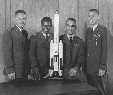 Left to Right: Robert T. Herres, USAF; Robert H. Lawrence, Jr., USAF; Dr. Donald H. Peterson, USAF; and James A. Abrahamson, USAF.